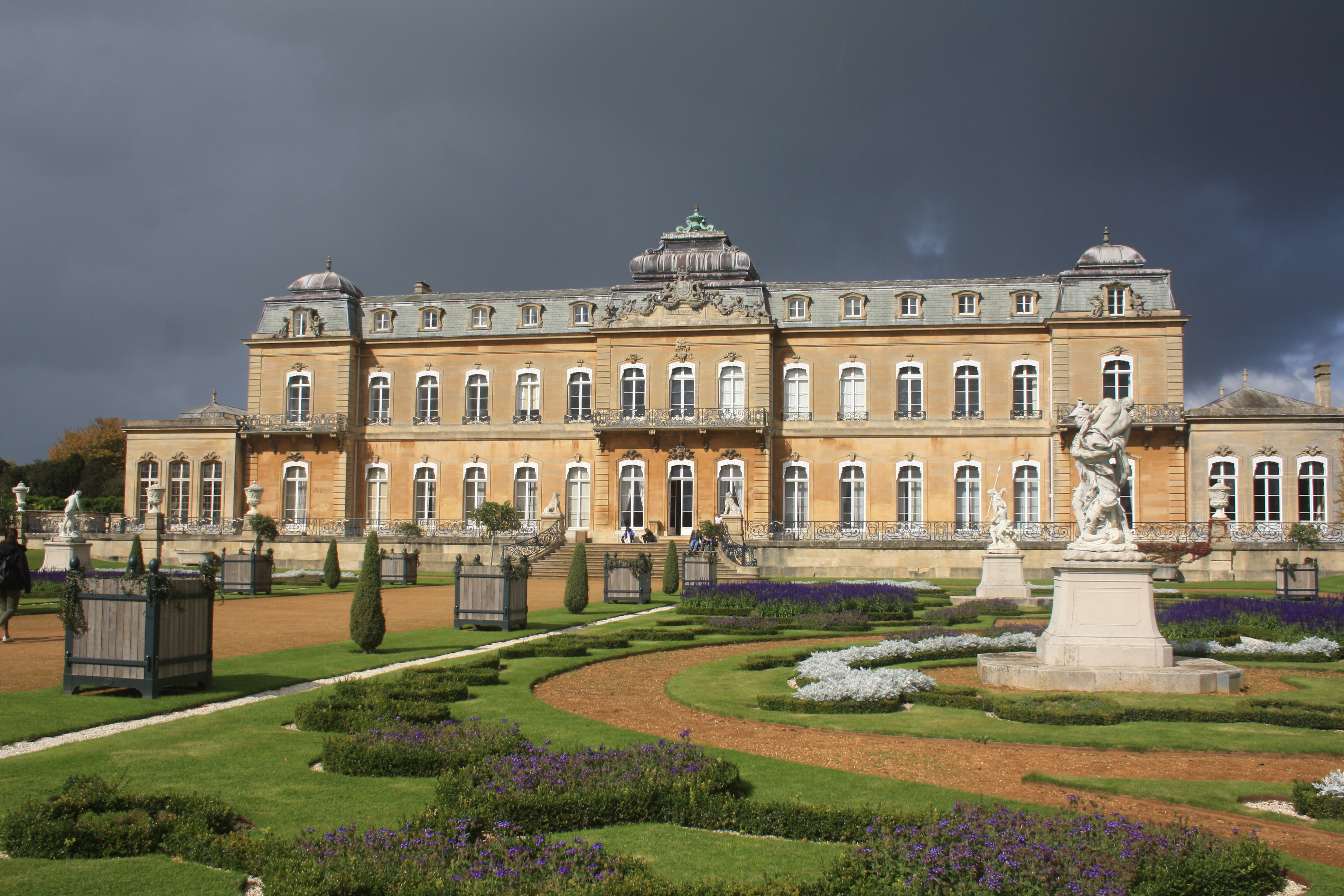 Wrest Park Wikidata has entry Q8037765 with data related to this item.